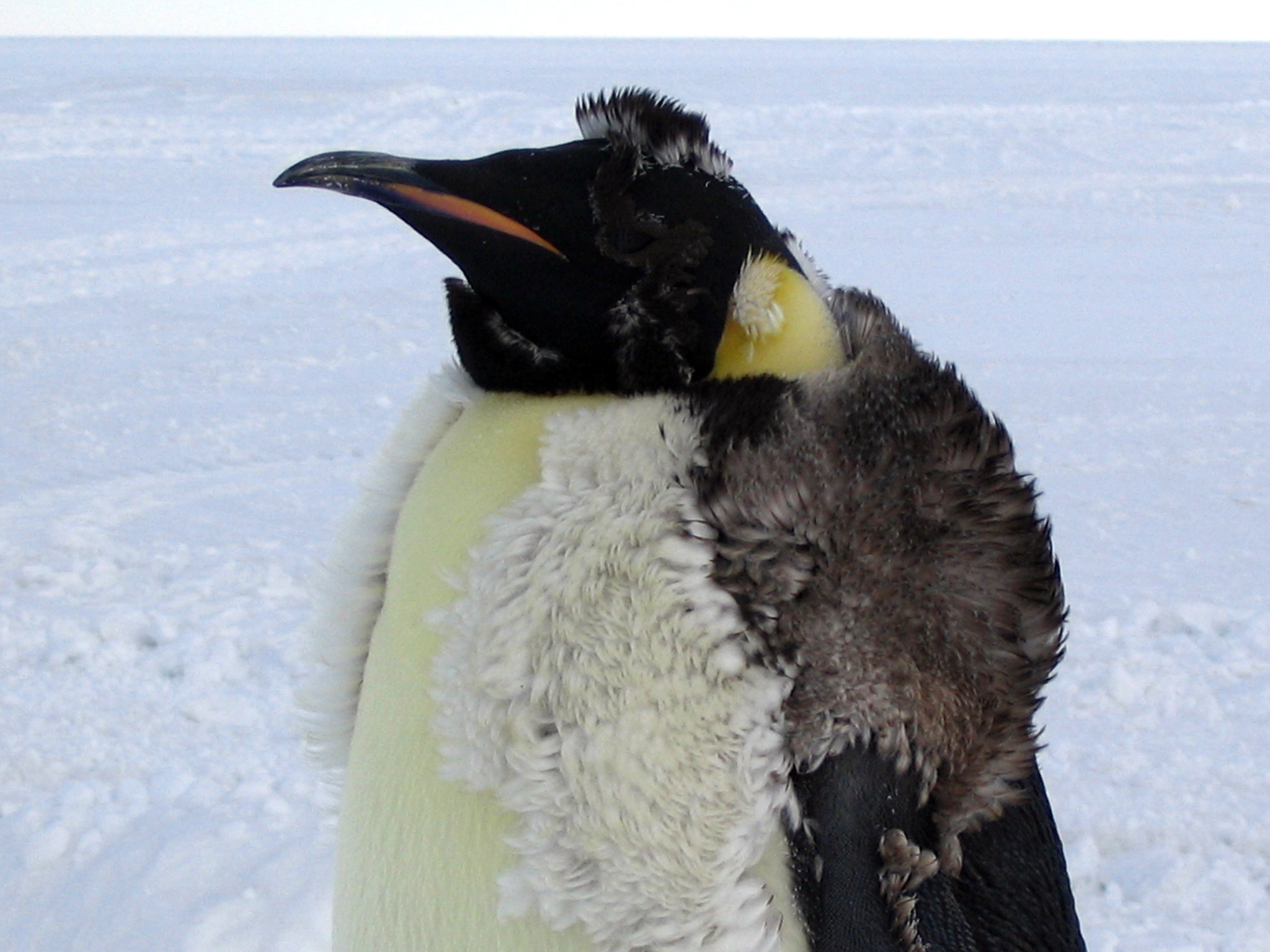 An molting Emperor penguin (Aptenodytes forsteri).